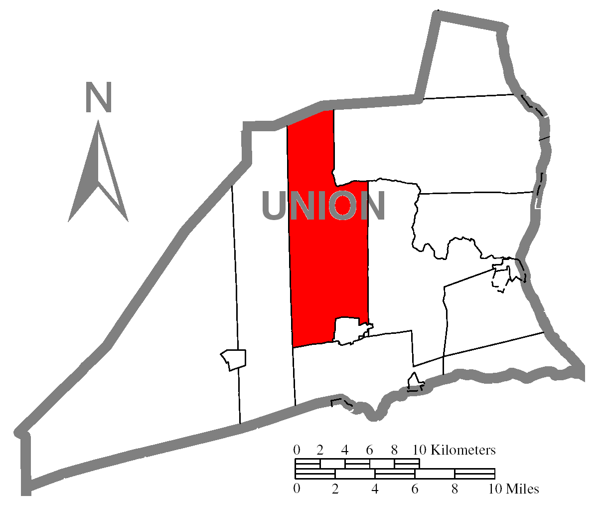 A map of Union County showing West Buffalo Township, Pennsylvania (alternate) highlighted on the map.